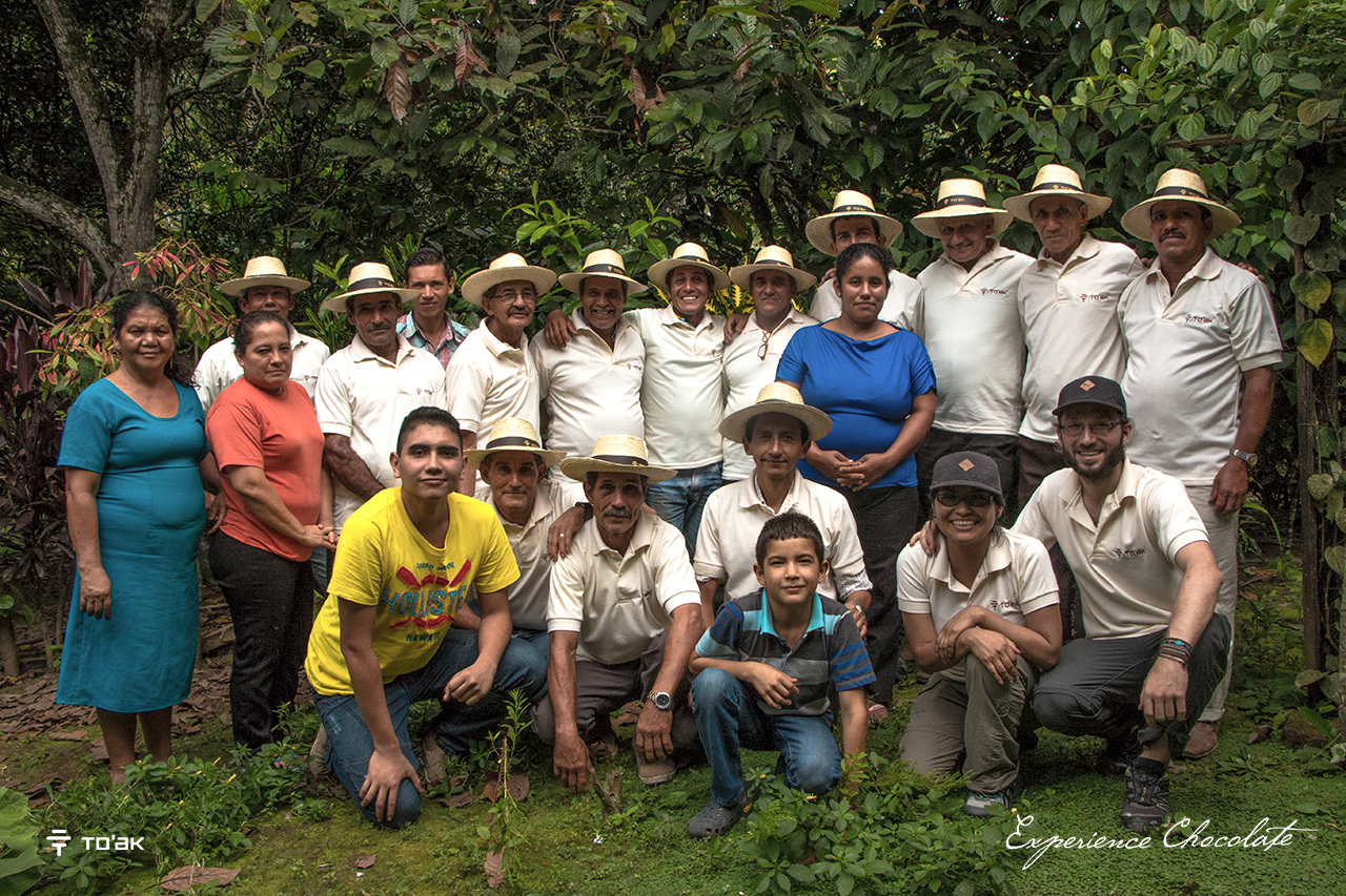 Piedra de Plata team